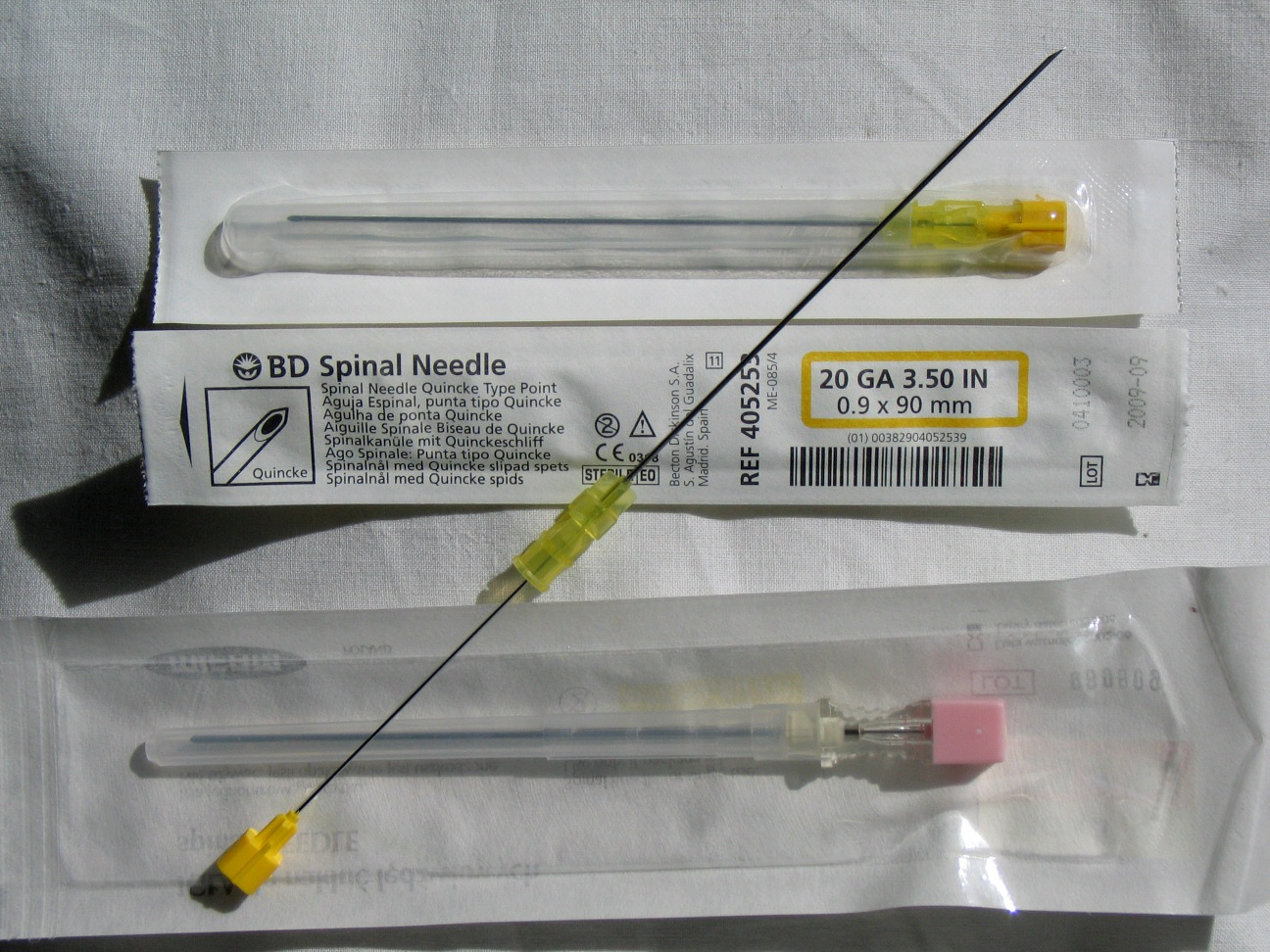 Spinal needles used for example in spinal anaesthesia